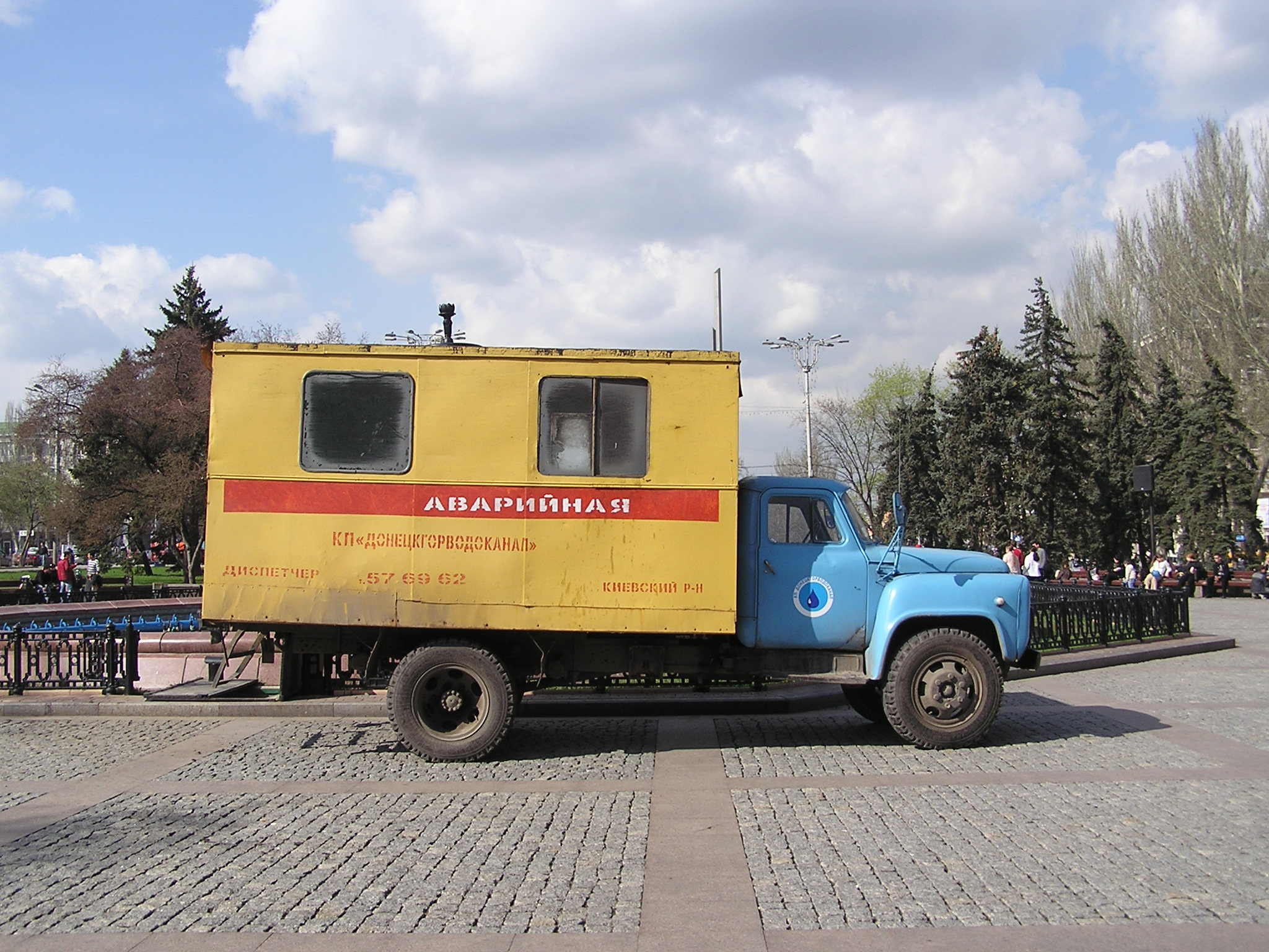 Truck in Donetsk (GAZ-52 ?)